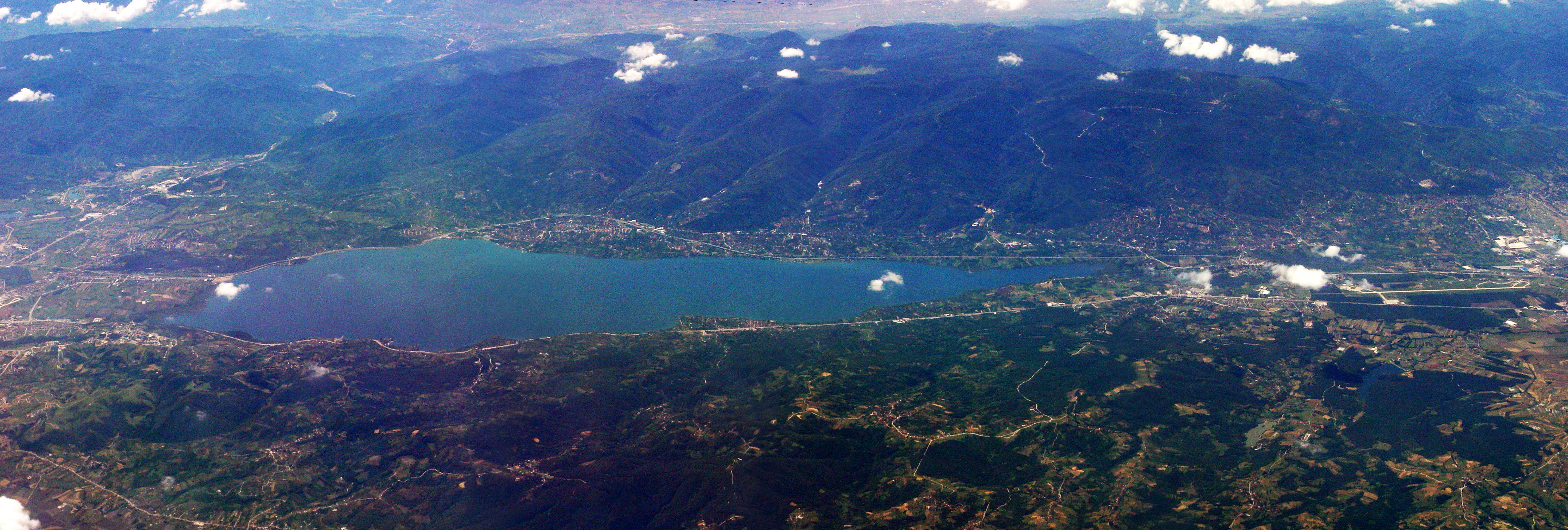 Oblique aerial photo of Lake Sapanca looking north. A pull-apart tectonic lake on the North Anatolian Fault, Western Turkey.